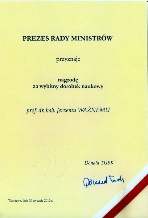 reward